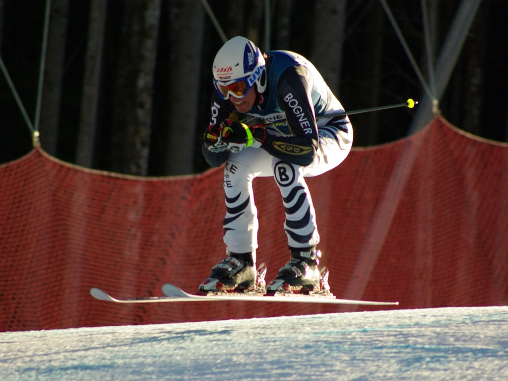 German alpine skier Fritz Dopfer during the European Cup Giant Slalom in Hinterstoder, Austria on January 11, 2008.